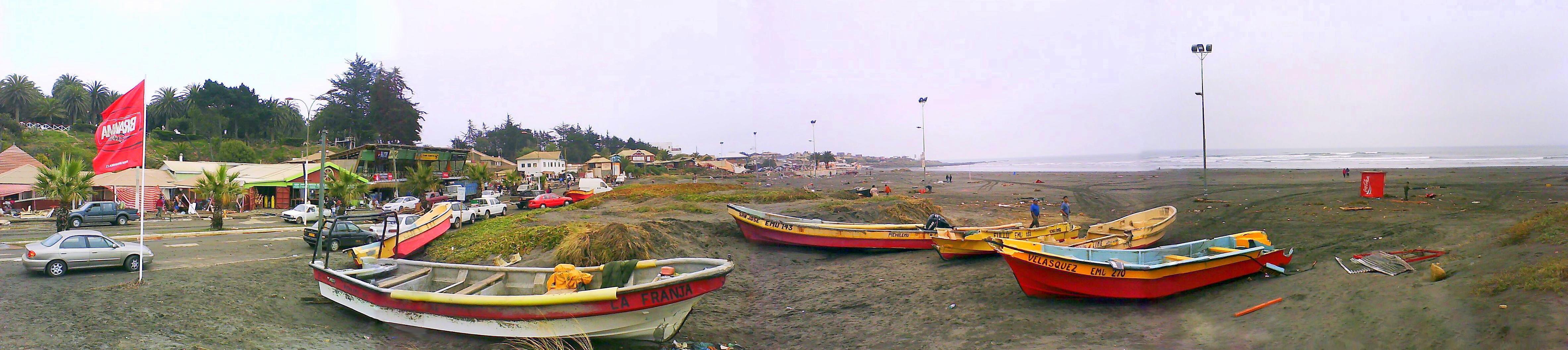 Full view of Main Beach of Pichilemu after 2010 Chilean earthquake.